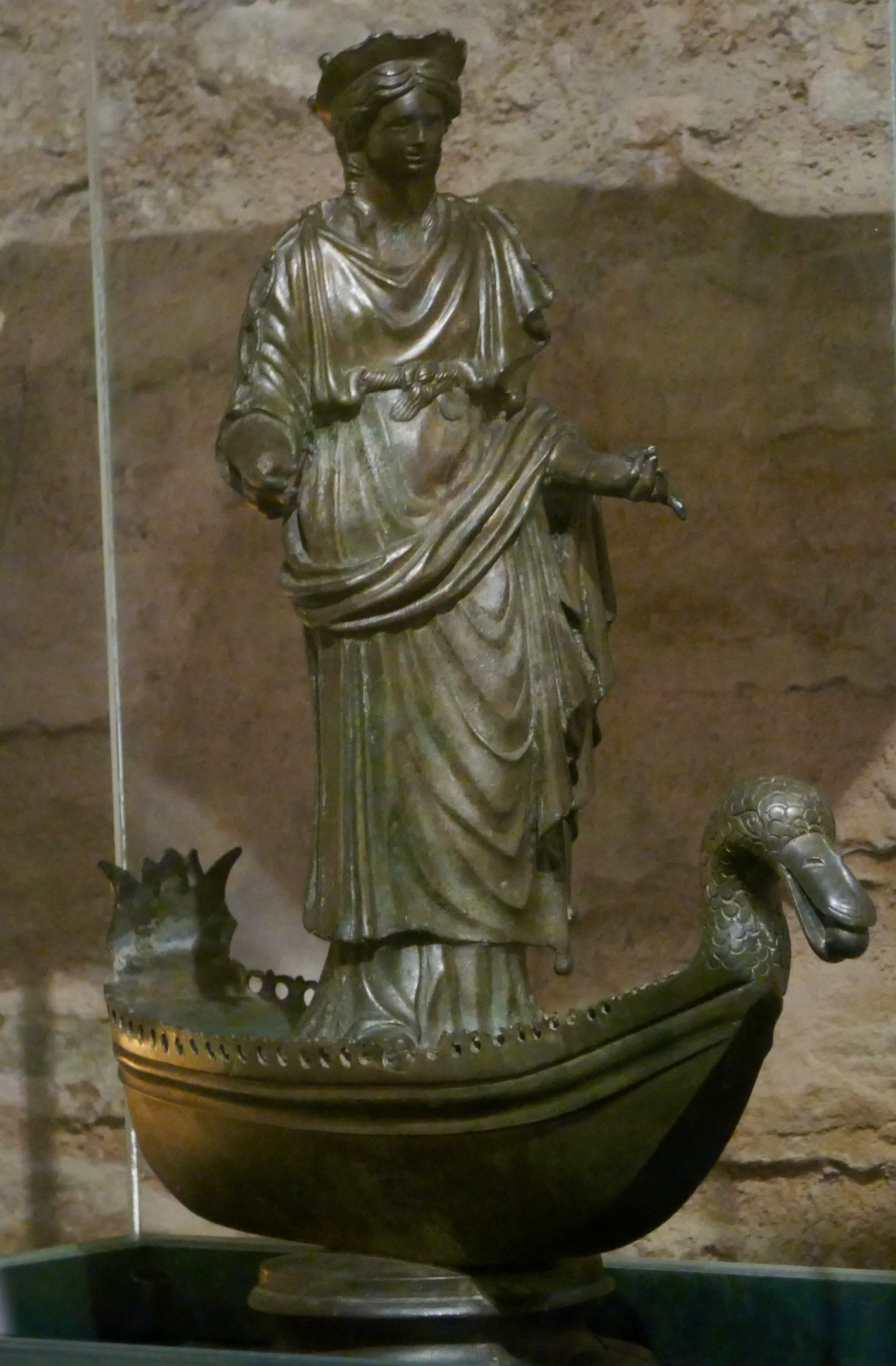 Sequana, Gaulish Goddess of the Seine, in the Duck-Headed Boat. This statue is in the Musée Archéologique in Dijon, France.